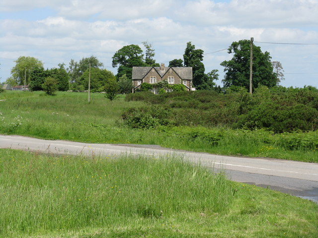 Bromyard Downs - Park Head house